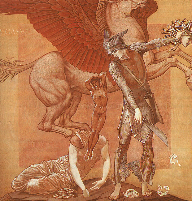 The Birth of Pegasus and Chrysaor (c1876-1885) by Edward Burne-Jones, gouache, Southampton City Art Gallery.